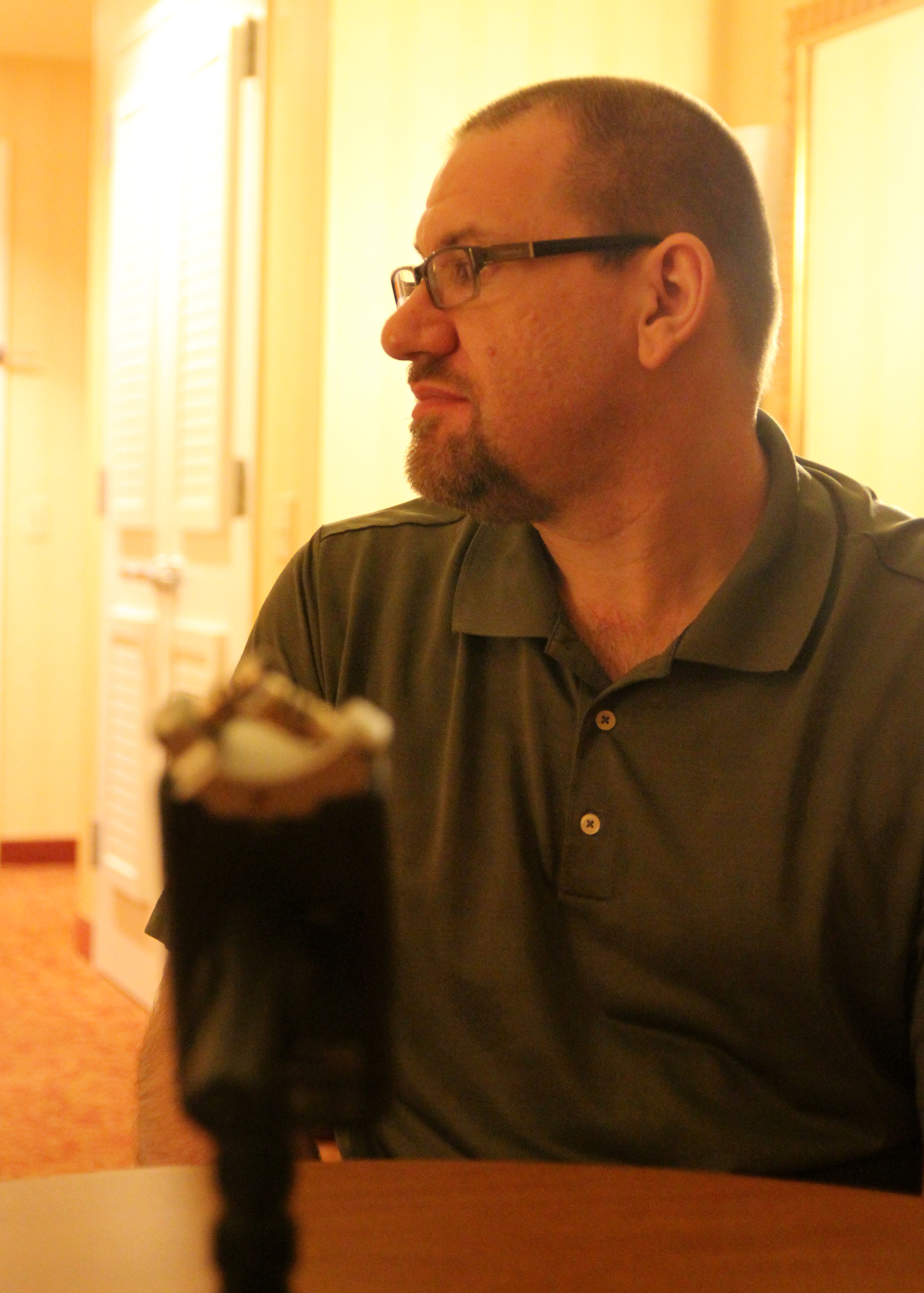 Derek Coloduno recording episode of Skepticality at TAM 2013